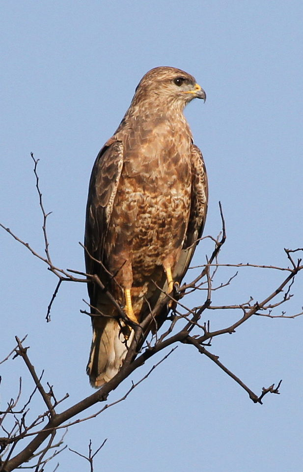 Steppe Buzzard, Buteo buteo vulpinus, at Dinokeng Game Reserve, Gauteng/Limpopo, South Africa